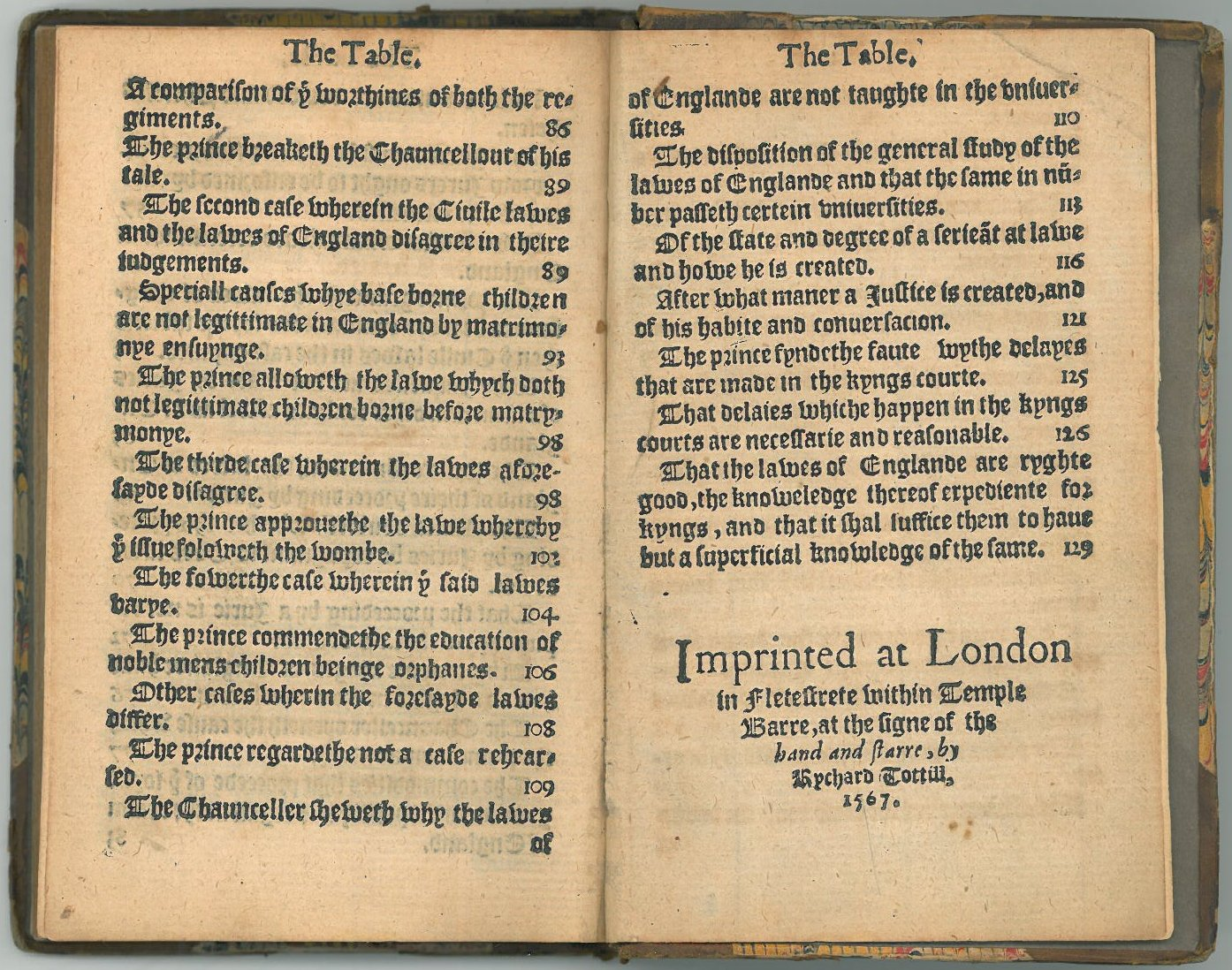 Colophon of John Fortescue (1567) A Learned Commendation of the Politique Lawes of Englande: VVherin by moste Pitthy Reasons & Euident Demonstrations they are Plainelye Proued Farre to Excell aswell the Ciuile Lawes of the Empiere, as also all other Lawes of the World, with a Large Discourse of the Difference betwene the. ii. Gouernements of Kingdomes: Whereof the One is onely Regall, and the Other Consisteth of Regall and Polityque Administration Conioyned. Written in Latine aboue an Hundred Yeares Past, by the Learned and Right Honorable Maister Fortescue Knight, Lorde Chauncellour of England in the Time of Kinge Henrye the. vi. And Newly Translated into Englishe by Robert Mulcaster (1st English ed.), London: Imprinted ... in Fletestrete within Temple Barre, at the signe of the hand and starre, by Rychard Tottill OCLC: 837169265. The text of the colophon is as follows: "Imprinted at London, / in Fleetſtreete within Temple / Barre, at the ſigne of the / hand and ſtarre, by / Rychard Tottill, / 1567."